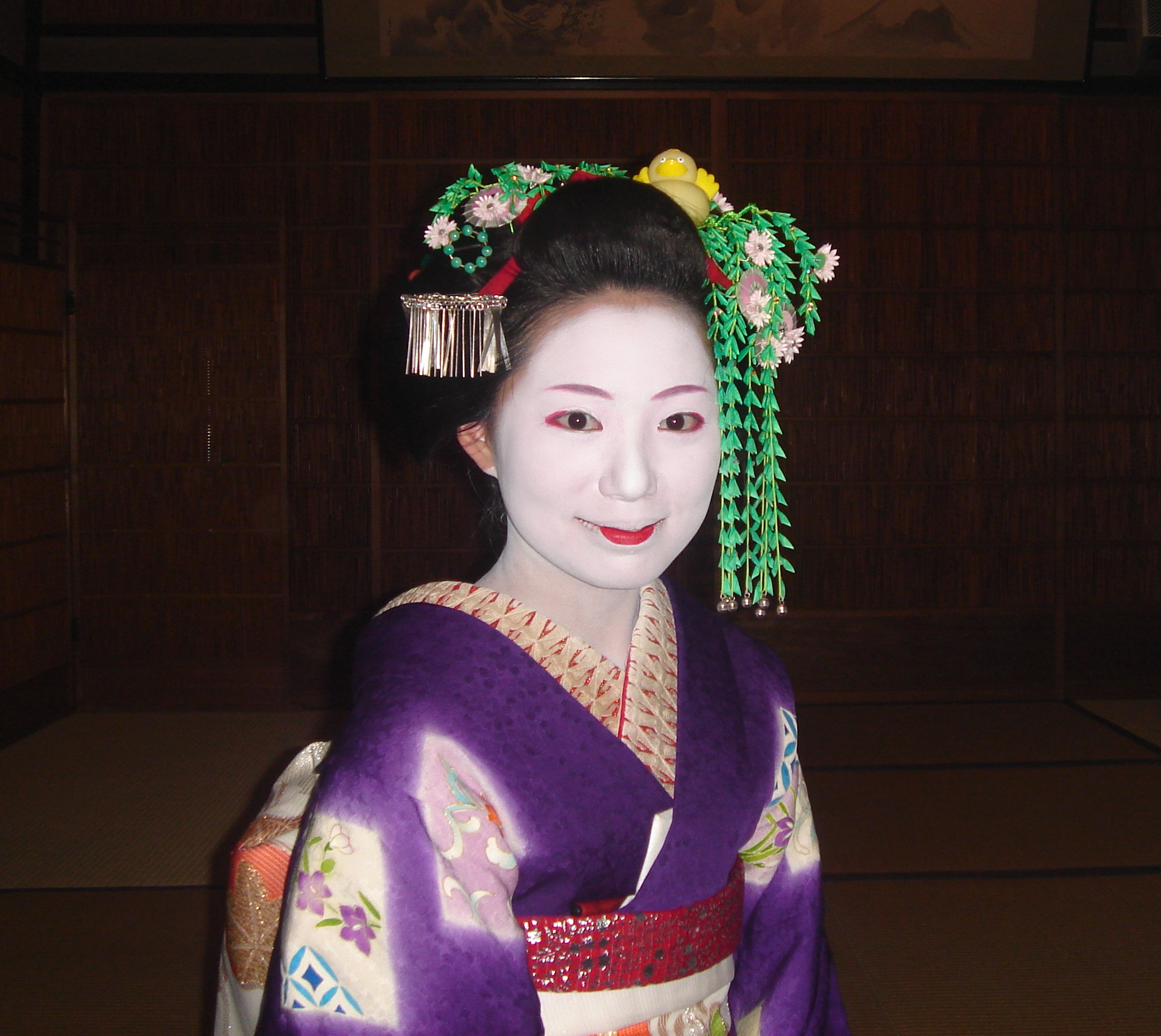 The maiko Mamechiho in the Gion district of Kyoto. The style of the lipstick shows that she is still a novice. The green hair accessory features willow for June.